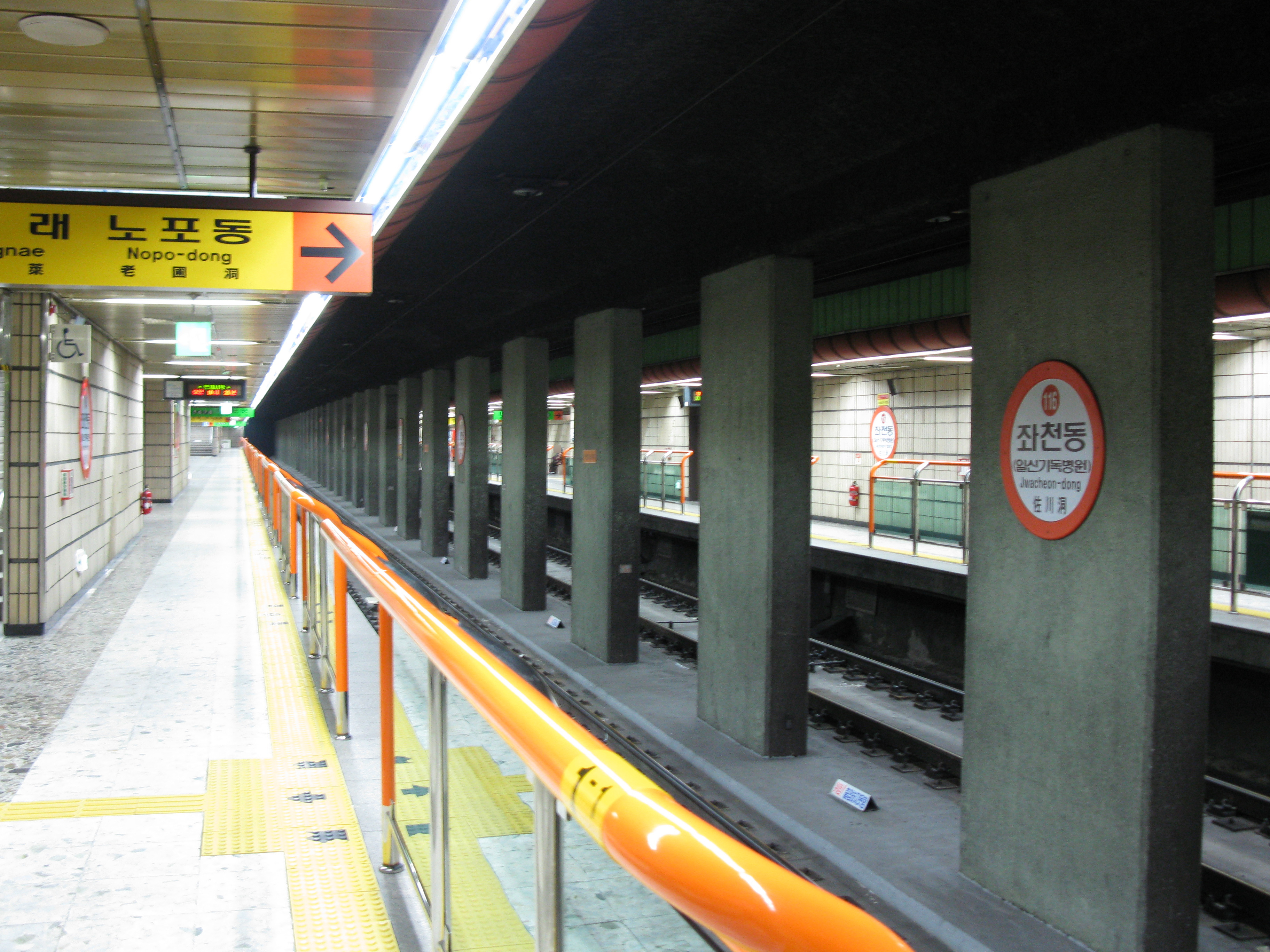 Jwacheon-dong Station platform (Busan Subway Line 1)